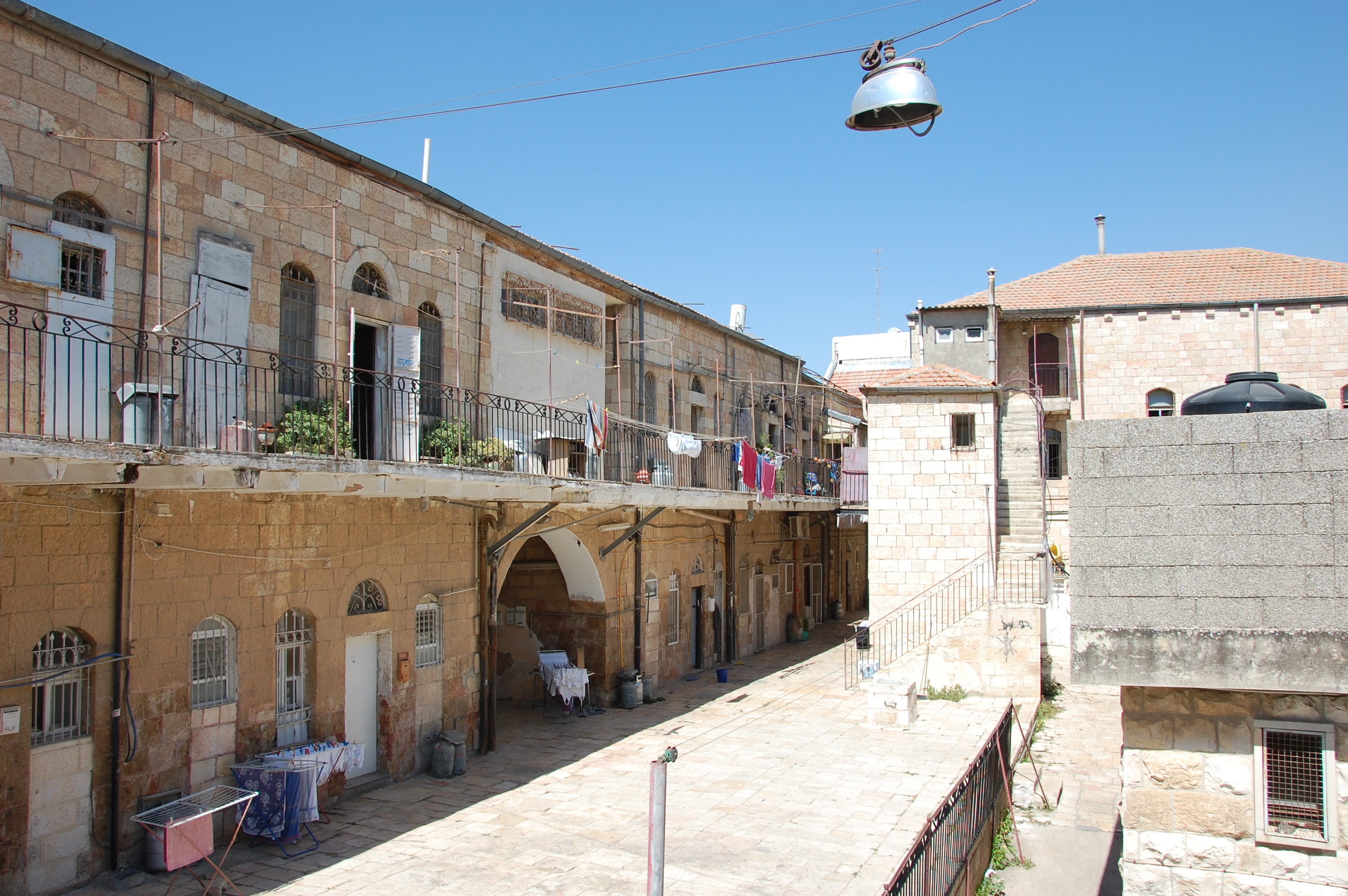 Batei Rand, Jerusalem